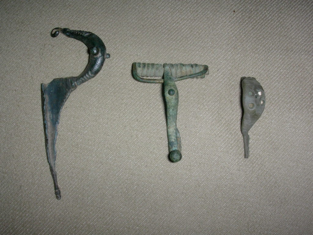 More Early Fibulae (Left to right.) Epirot 3-knob Bow Fibula. Greek. Late-7th-6th c. BCE. (Missing pin.) Doublezeir Bow Fibula (Type dZ2). Late Hallstatt (D2). 5th c. BCE. Leech, or Sanguisuga, Fibula, variant B. Istria, Croatia. 6th c. BCE. (Paste missing from holes.)